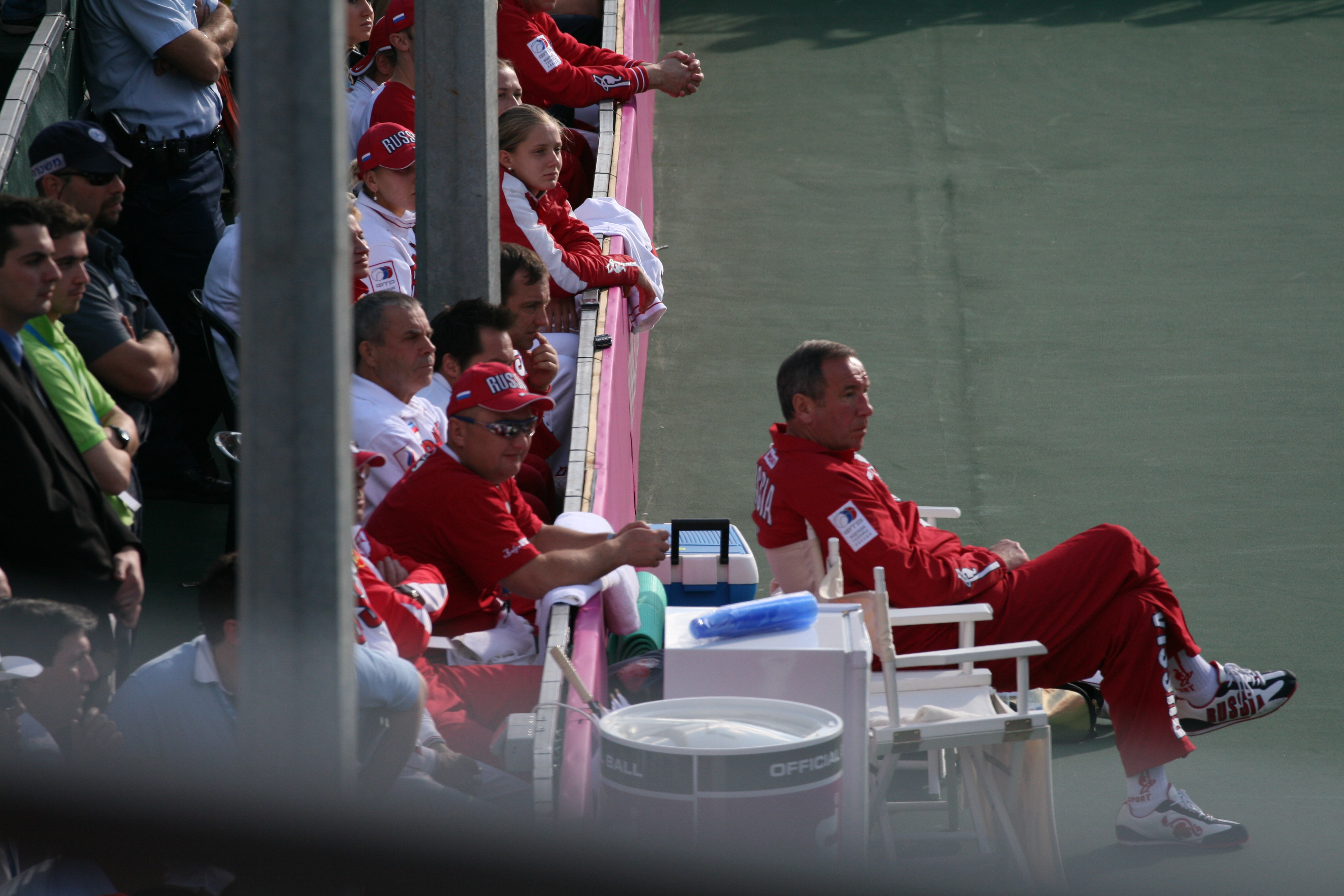 Shamil Tarpischev Captain of the Russian tennis team, Fed Cup match vs Israel. National Tennis Center, Ramat HaSharon, Israel